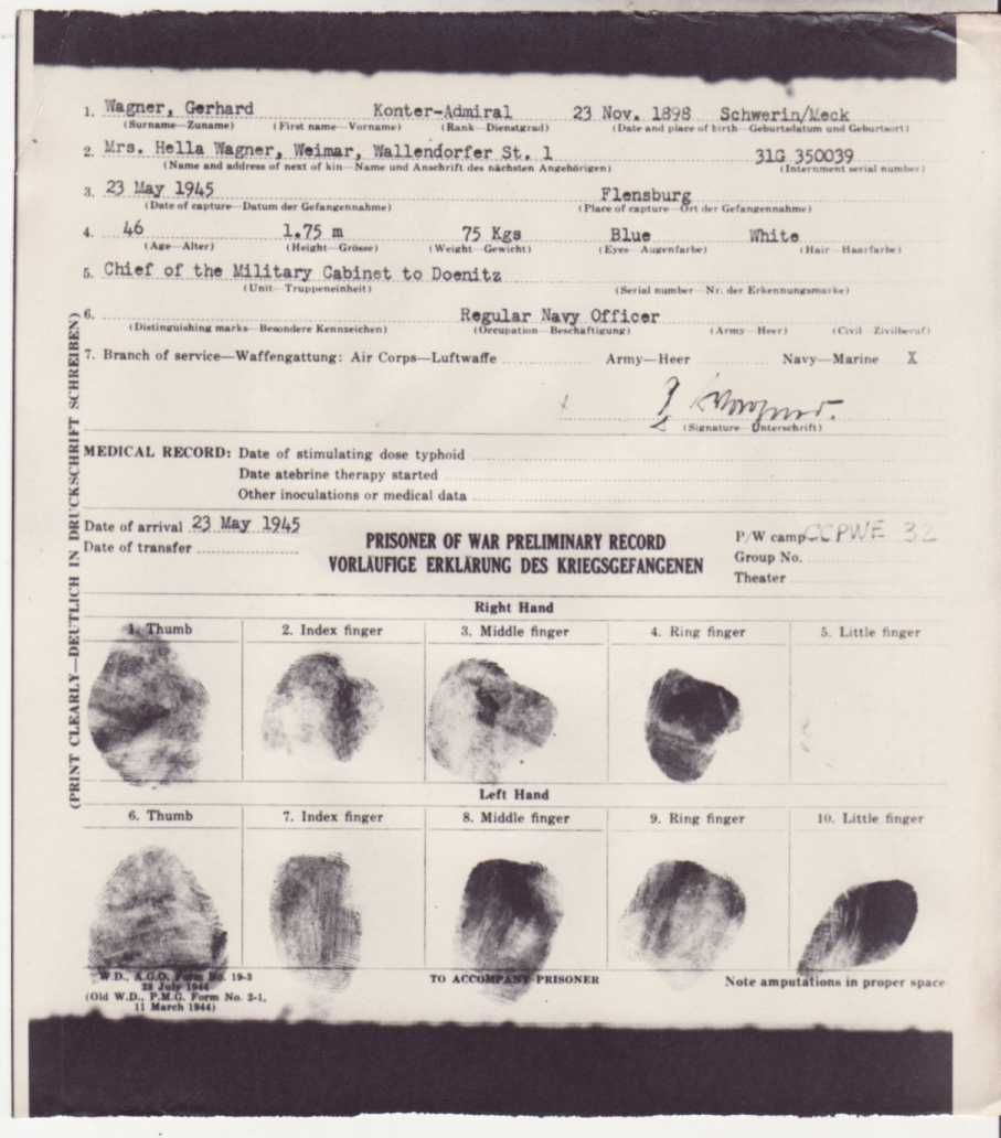 Admiral Gerhard Wagner's POW file. Per his Wikipedia article, he "visited British Field Marshal Bernard Montgomery and negotiated a partial surrender of the German forces in northern Germany at Lüneburg Heath on 4 May 1945." This was likely made by the British Military. Will tag as such; the website claims it was either made by the US or it's Allies. Is PD in either case, as the Crown copyright is expired (after 50 yrs), or it was never covered by copyright as a work of the US Government.